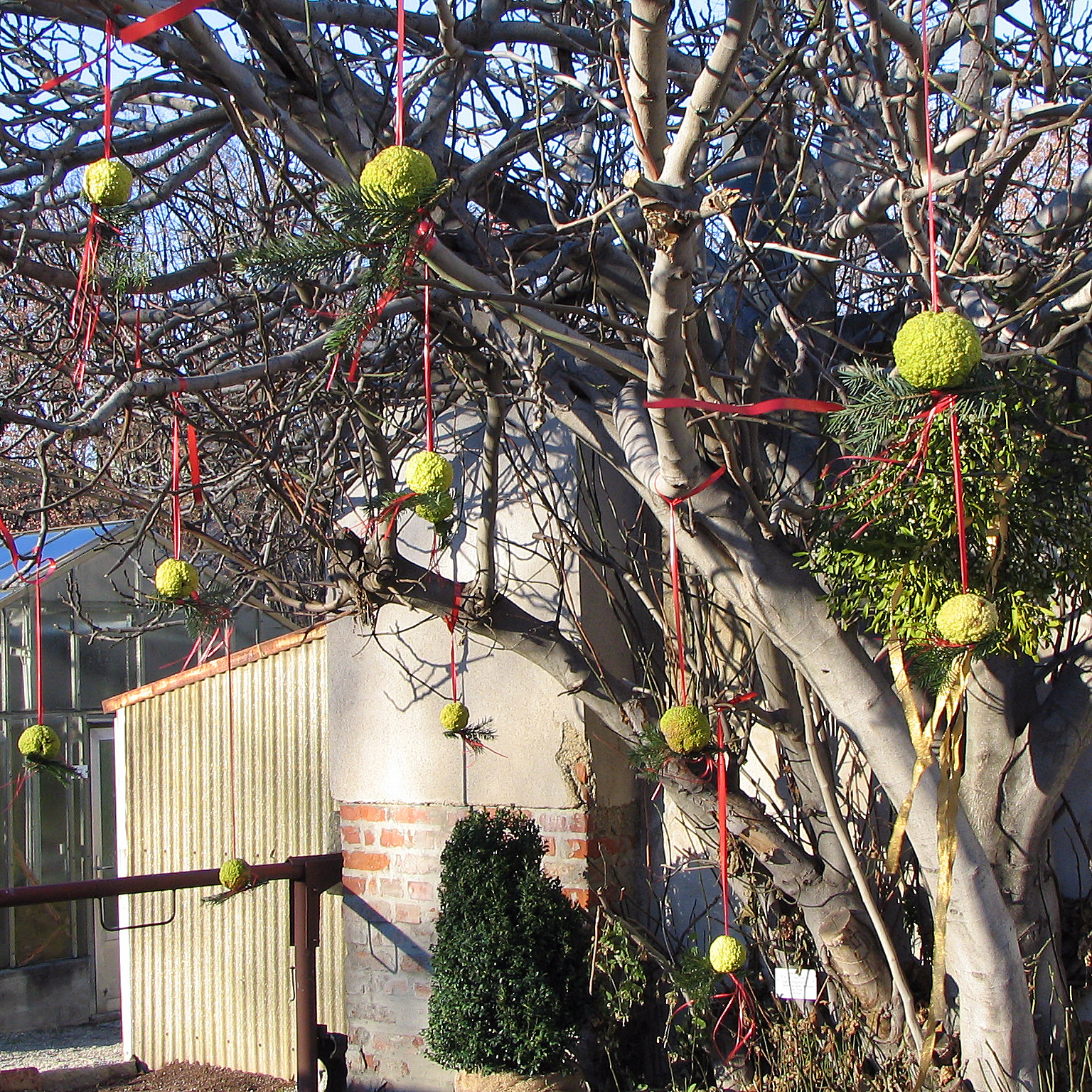 Maclura fruits as christmas decoration in Botanical garden of Vienna.